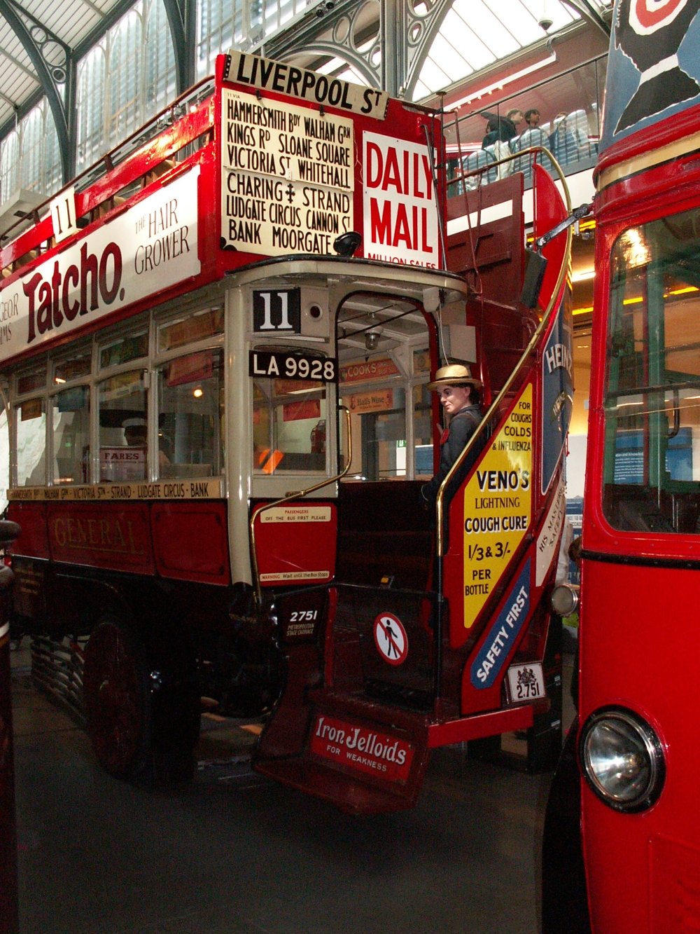 The 1911 built LGOC B-type bus, number B340 (reg. LA 9928), built and operated by the London General Omnibus Company, at the London Transport Museum.